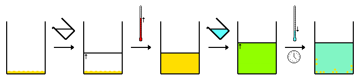 2 solvent recrystallisation: Solvent added (clear) to compound (orange) Solvent heated to give saturated compound solution (orange) Second solvent (blue) added to compound solution (orange) to give mixed solvent system (green) Mixed solvent system (green) allowed to cool overtime to give crystals (orange) and a non-saturated mixed solvent system (green-blue). i.e. → Solvent added (clear) to compound (orange) → Solvent heated to give saturated compound solution (orange) → Second solvent (blue) added to compound solution (orange) to give mixed solvent system (green) → Mixed solvent system (green) allowed to cool over time to give crystals (orange) and a non-saturated mixed solvent system (green-blue).